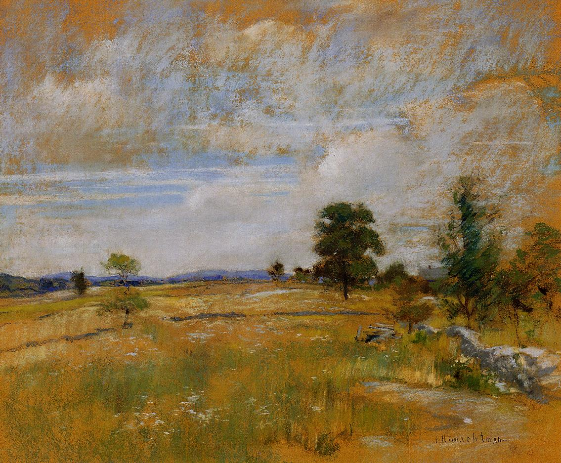 John Henry Twachtman (1853–1902) Alternative namesTwachtman, John H.DescriptionAmerican painterDate of birth/death4 August 18538 August 1902Location of birth/deathCincinnatiGloucesterWork locationUnited States, FranceAuthority control : Q1342683 VIAF: 23008140 ISNI: 0000 0000 6680 976X ULAN: 500006514 LCCN: n79061318 WGA: TWACHTMAN, John Henry WorldCat Connecticut Landscape